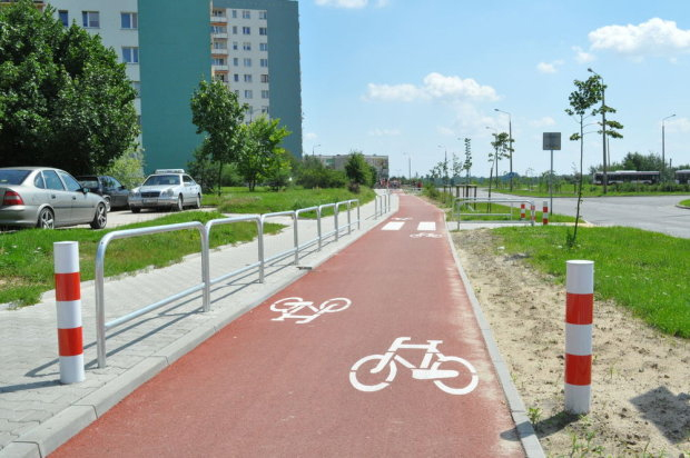 Radom bike road